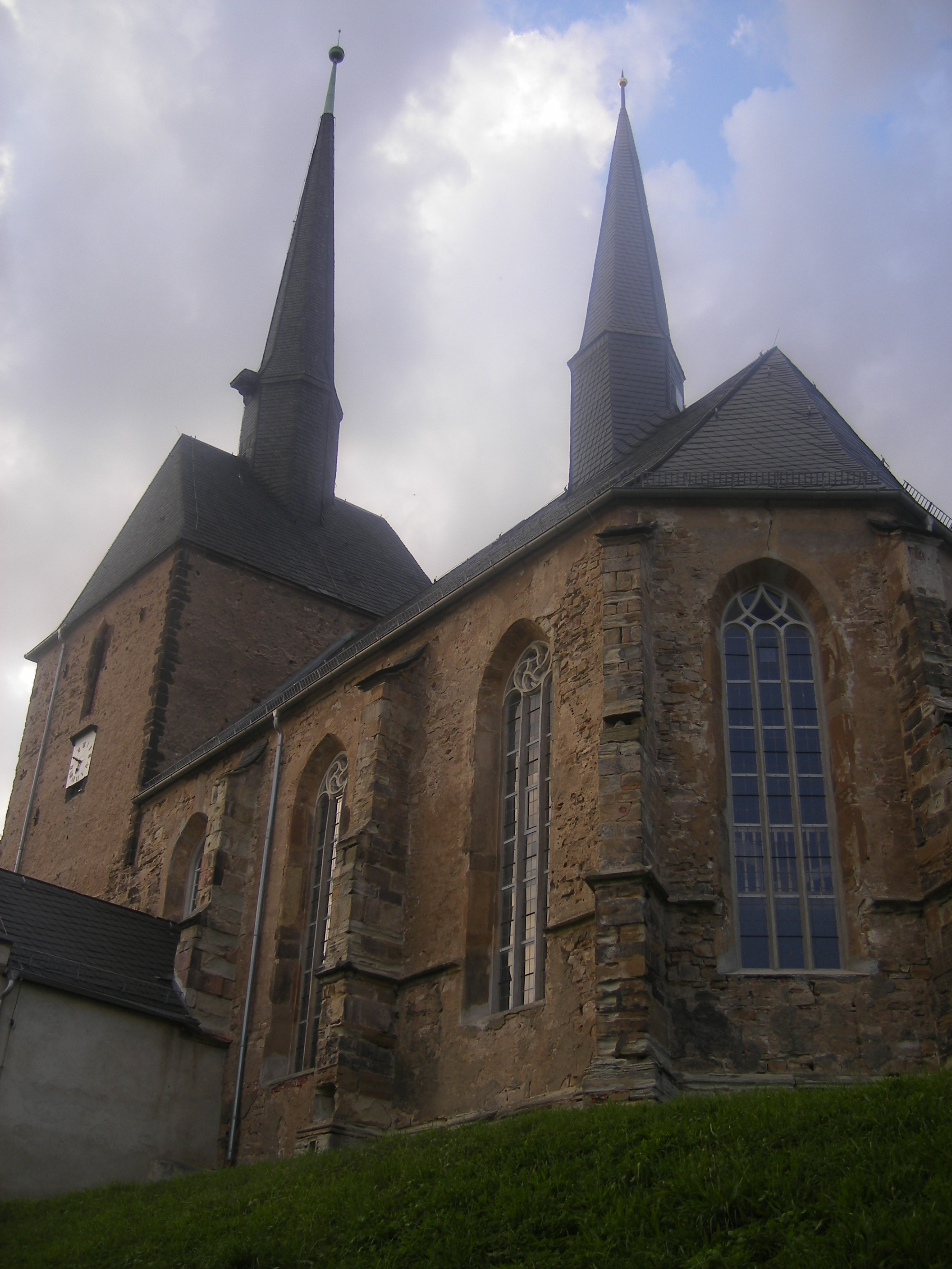 Church in Tegkwitz near Altenburg/Thuringia